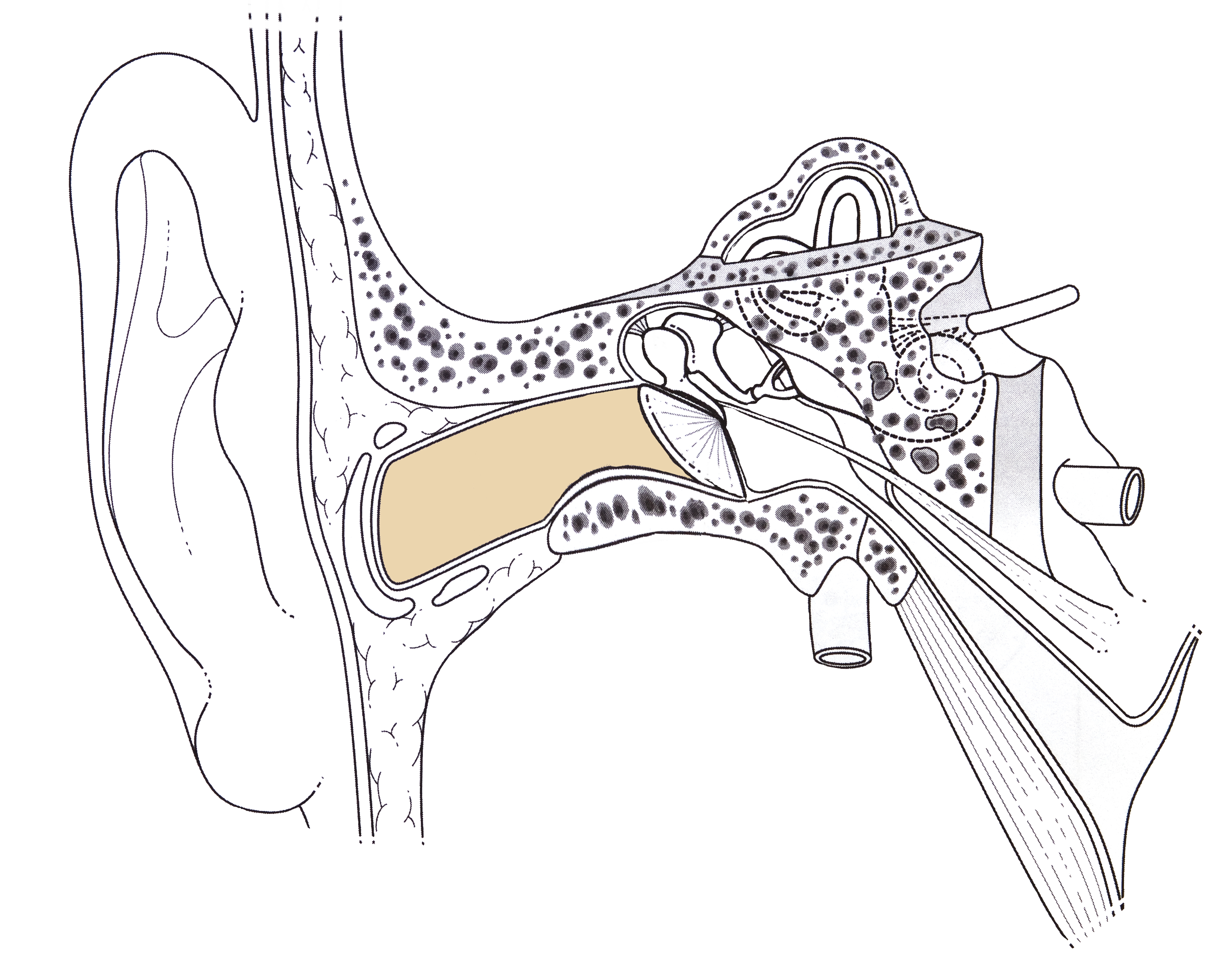 Ear canal - Schema